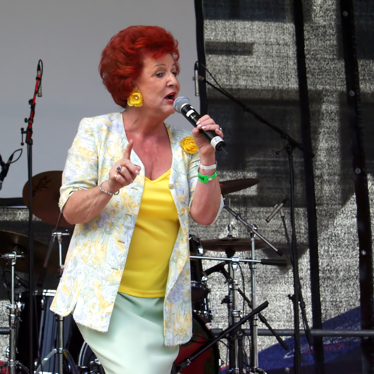 Marie Luise Nikuta in Cologne, Germany during ColognePride 2006.